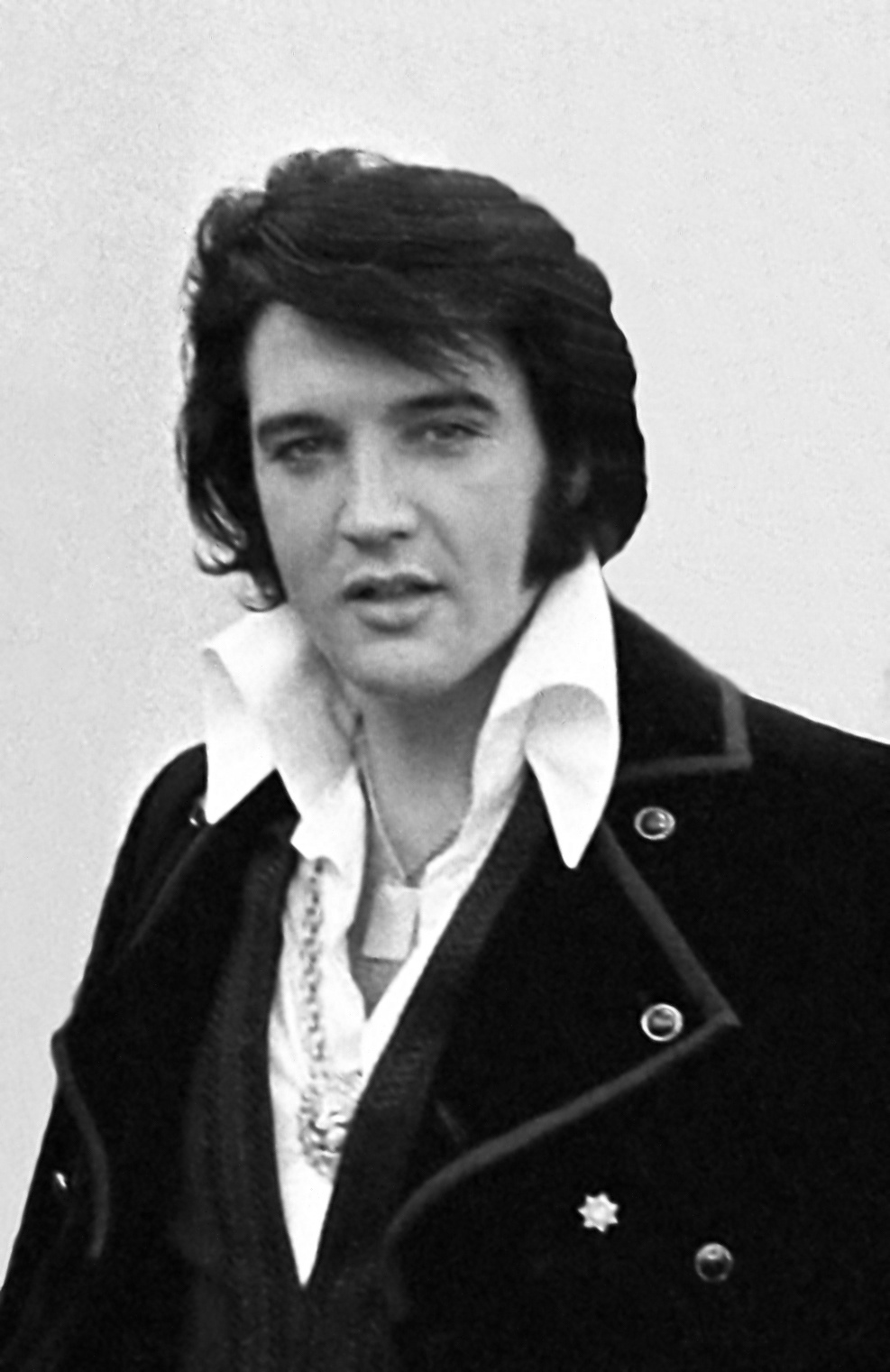 A cropped and retouched picture, showing a headshot of Elvis Presley.